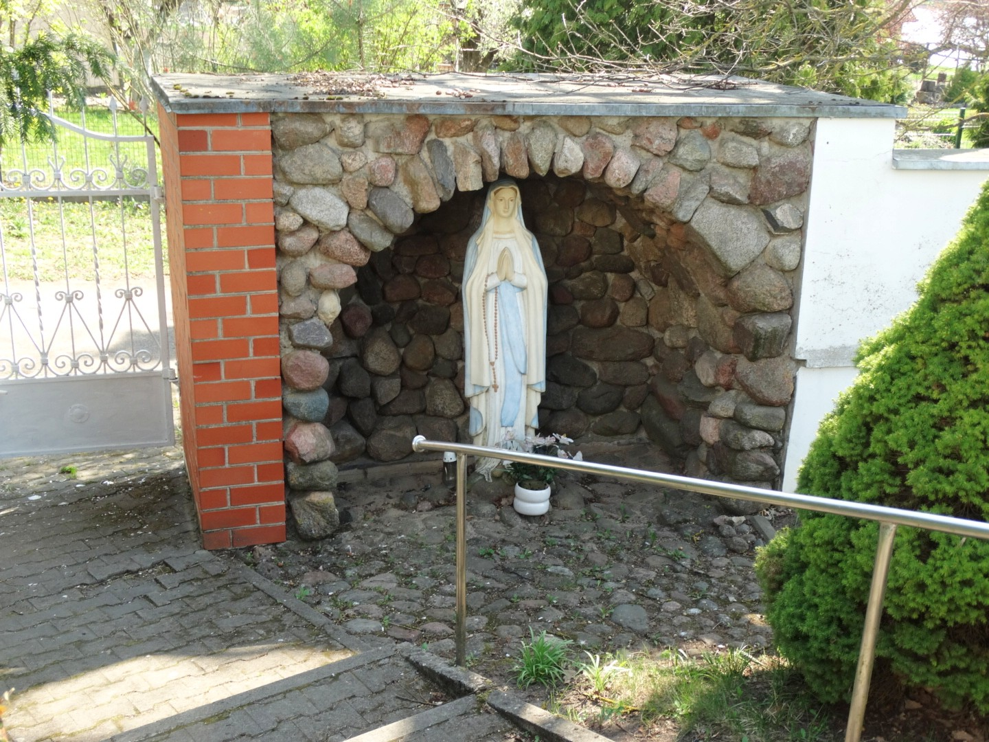 Lourdes Grotto in Krakės, Kėdainiai district, Lithuania